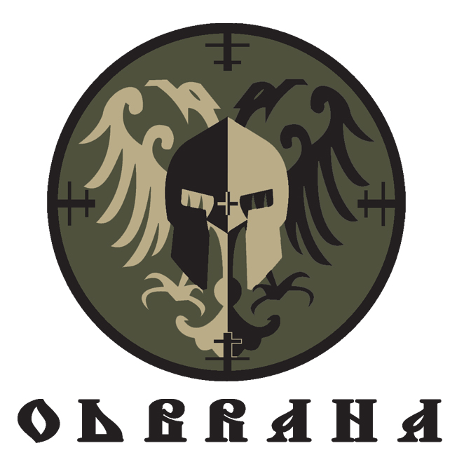 ODBRANA - Tactical Defense System: Self Defense, Tactical Training, Fitness, Executive ProtectionSrpski (latinica): ODBRANA - Takticki Sistem Odbrane: Samoodbrana, Takticki Trening, Fitnes, Telohranitelji